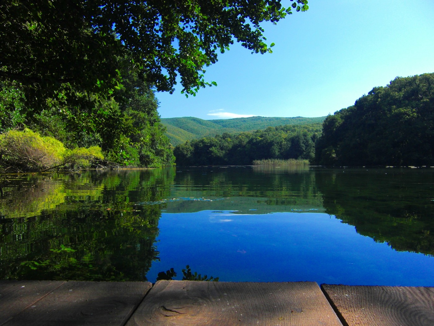 The springs called Island “Ostrovo” are located on the southeast side of Lake Ohrid, 28 km from Ohrid, next to the St. Naum Monastery (IX century) in Macedonia. They are forming the river Black Drim “Crn Drim” which flows into the lake. The Lake Ohrid flows out near Struga and forms again the river of Black Drim.